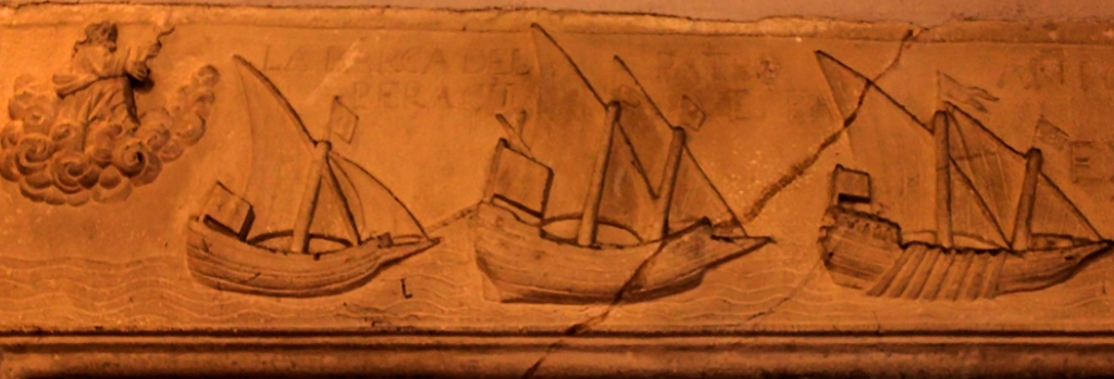 Llinda ermita de Sant Simó a Mataró